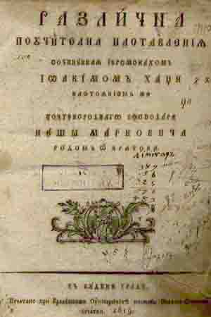 Book cover of Joakim Karchovski - "Some edifyingly advices" (1819)